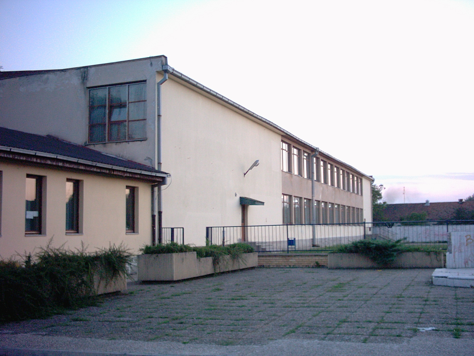 OŠ u Kucuri